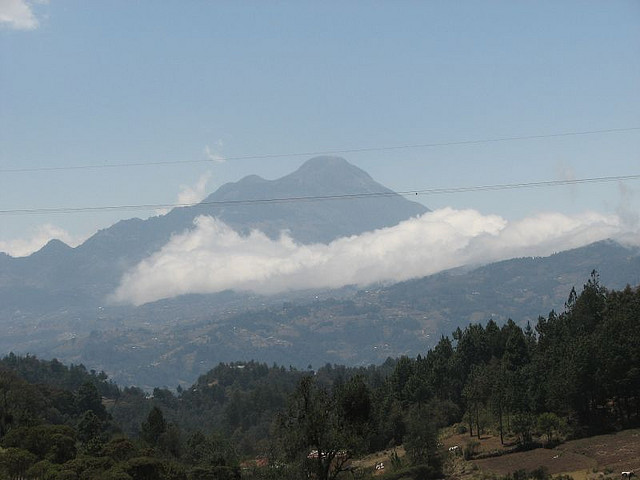 Tajumulco Volcano in Guatemala.